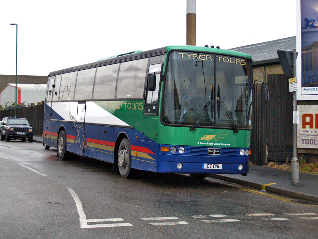 Fraser Eagle Limited (formerly Tyrer Tours Limited, originally Landtourers) C7 TYR, a DAF DE33WSSB3000 built 1998 with a Van Hool ‘Alizee’ C51F body parked on Incinerator Road, Nottingham after depositing Bury FC fans at Meadow Lane football ground, home of Notts County FC. Saturday 1st November 2008